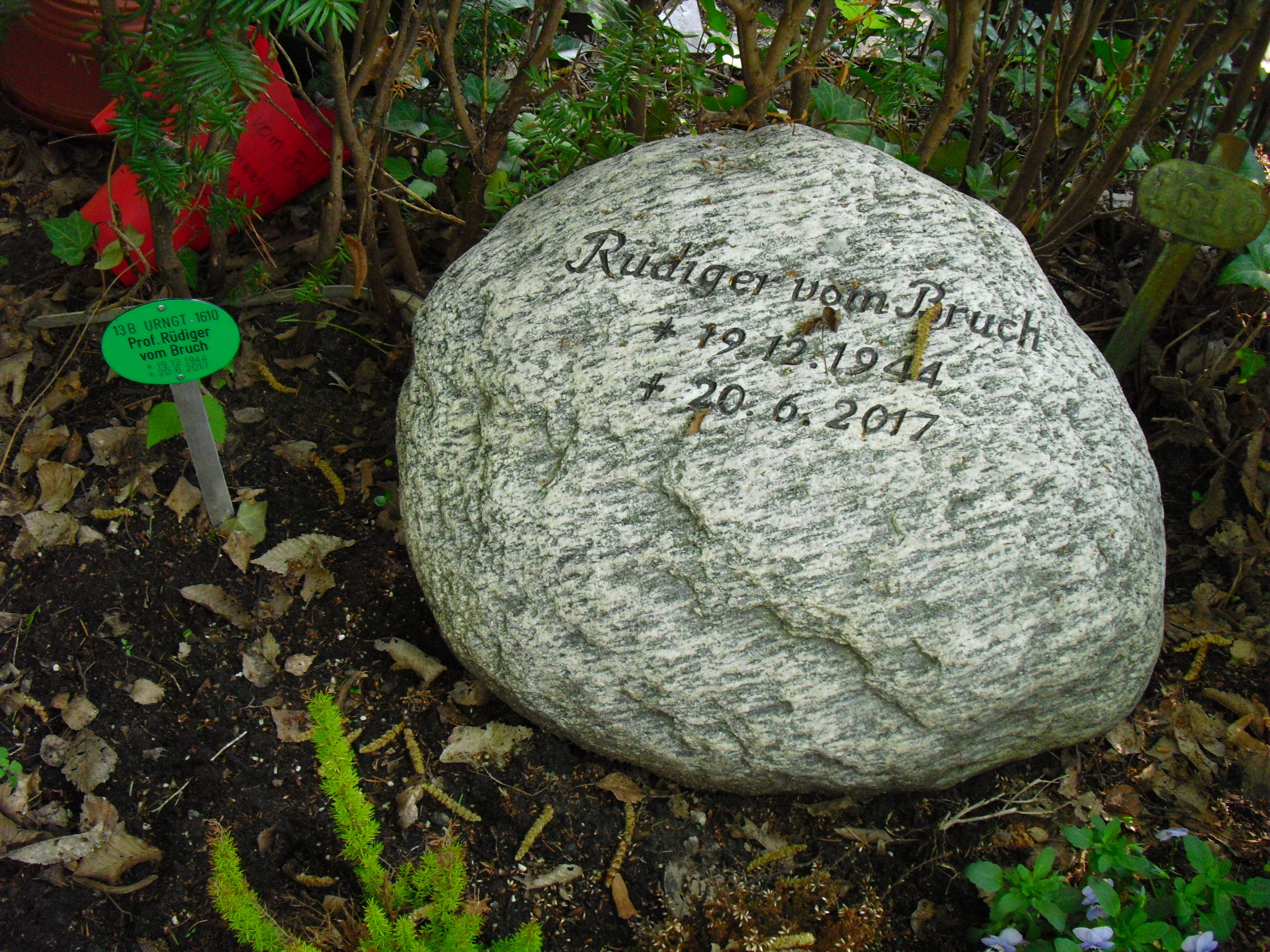 Grave of German historian Rüdiger vom Bruch in Parkfriedhof Lichterfelde in Berlin, Germany.